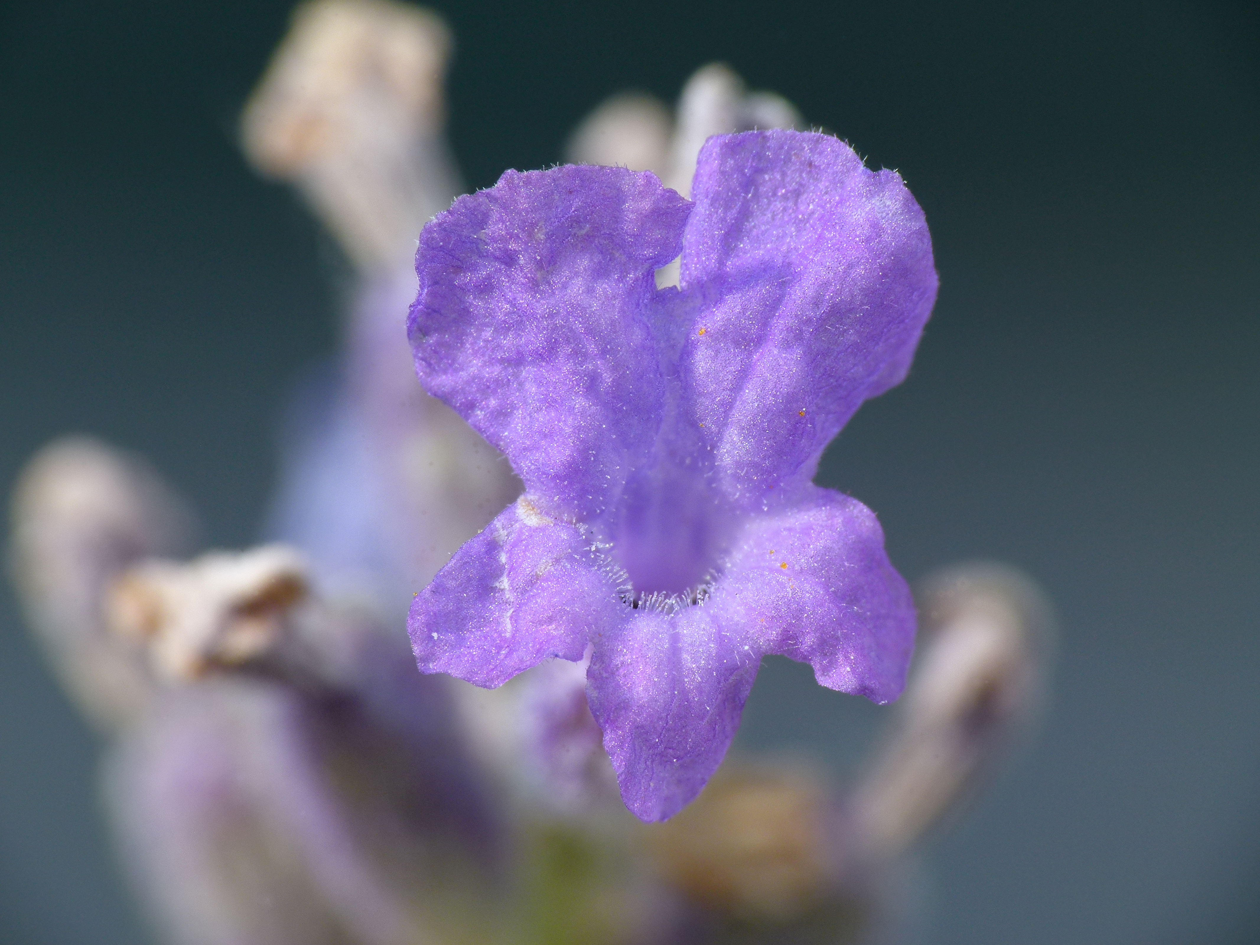 Lavender (Lavendula Angustifolia)